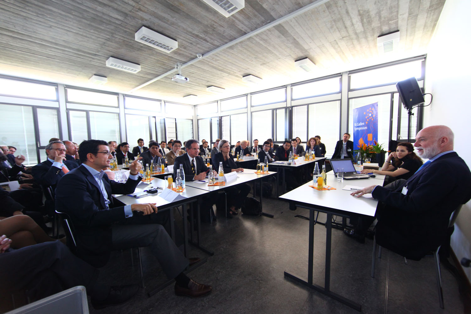 A work session with Richard Armstrong from the Guggenheim Foundation at the 41. St. Gallen Symposium in May 2011 at the University of St. Gallen.